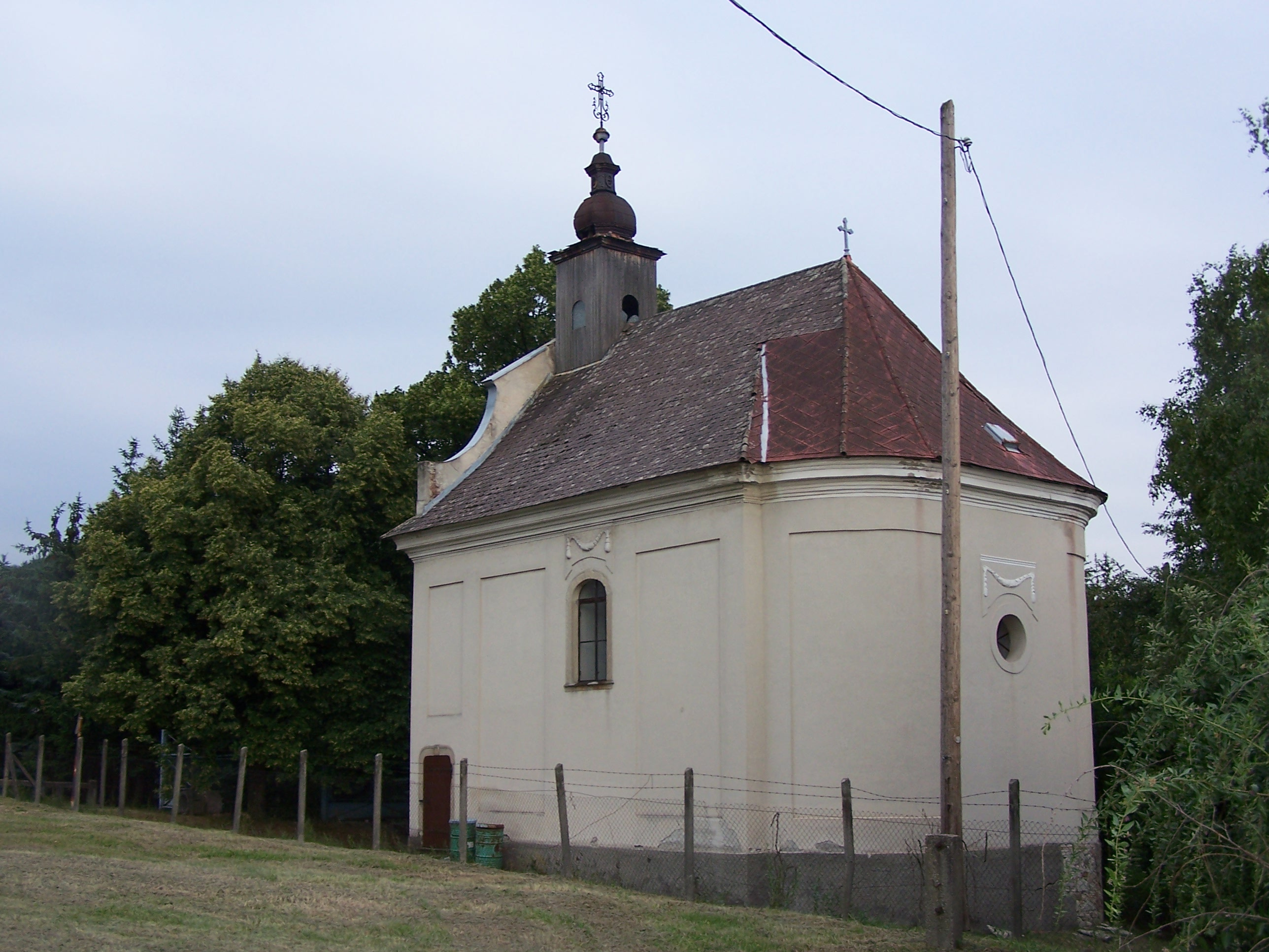 Chapel in Cserépváralja